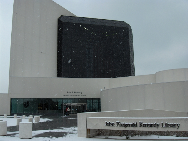 JFK Library, shoot taken under snow, December 2005